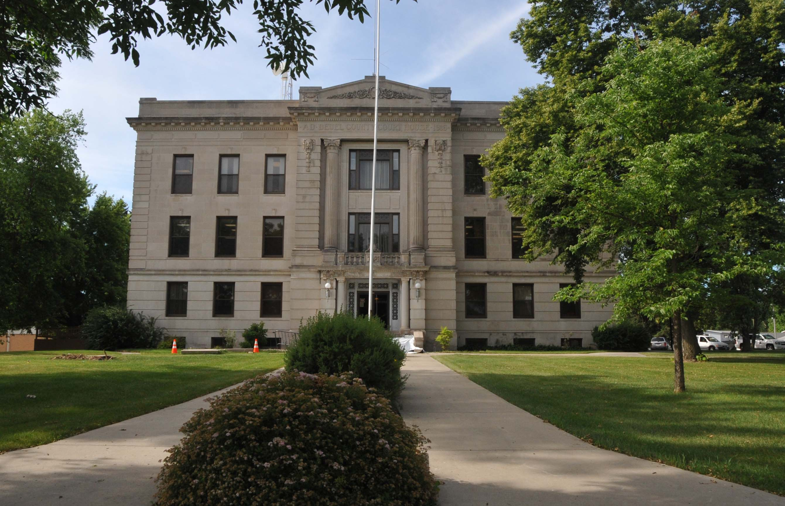 THE FIRM OF BUECHNER & ORTH DESIGNED THIS STRUCTURE BUILT IN 1916 IN THE TOWN OF CLEAR LAKE. THIS FIRM IS A WELL KNOWN DESIGNER OF COURTHOUSE IN THE UPPER MIDWEST